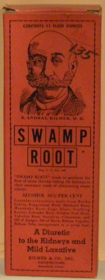 Kilmer's Swamp Root (a patent medicine), Edmonds Historical Museum, Edmonds, Washington.